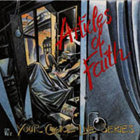 Album Cover of Band "Articles of Faith"